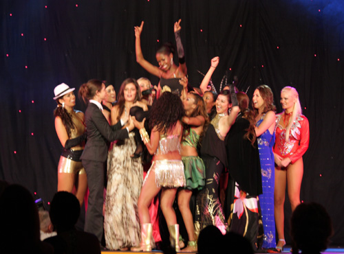 Contestants celebrate winning of talent show by Miss Barbados Natalie Griffith